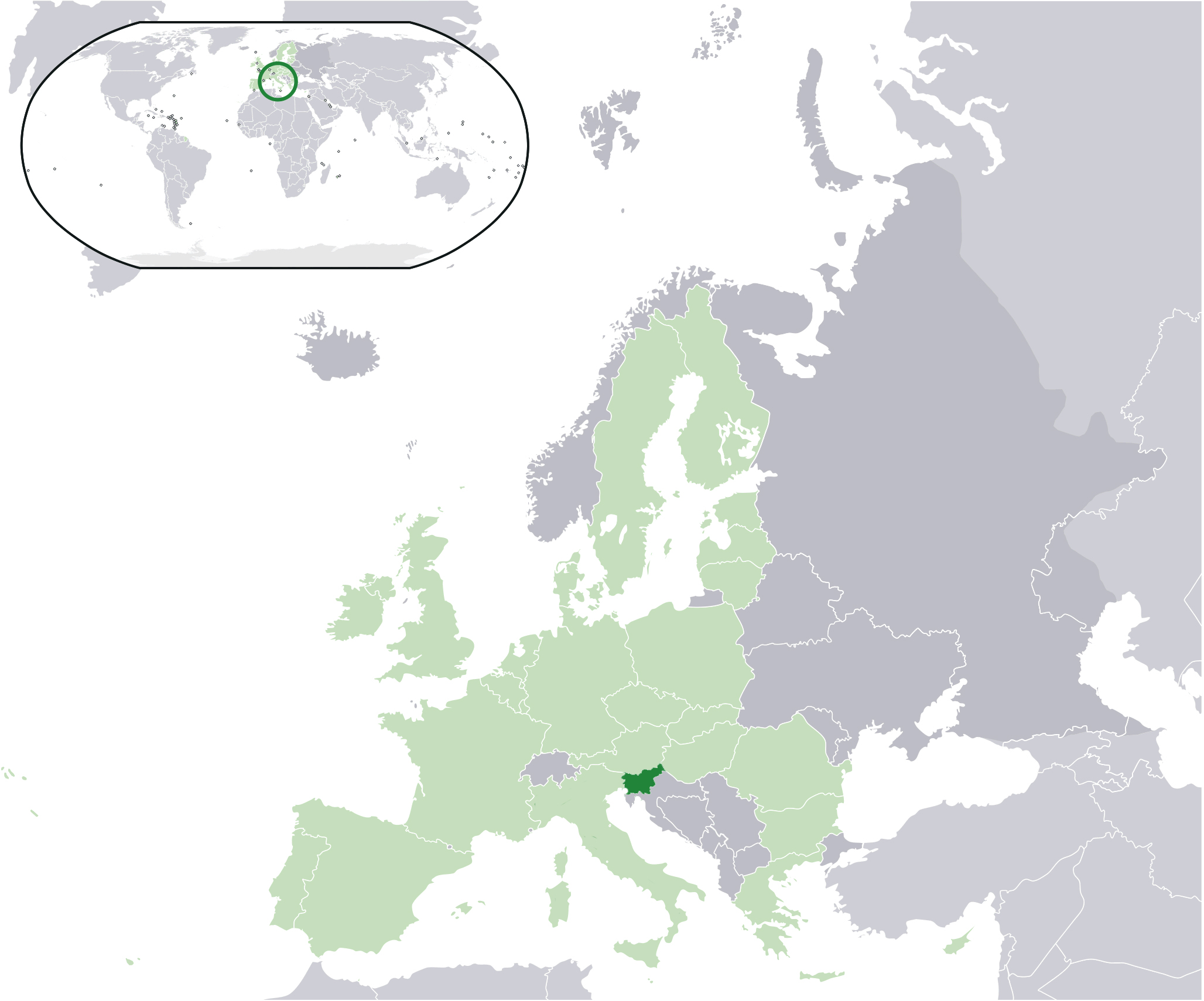 Location map: Slovenia (dark green) / European Union (light green) / Europe (dark grey); inspired by and consistent with general country locator maps by User:Vardion, et al